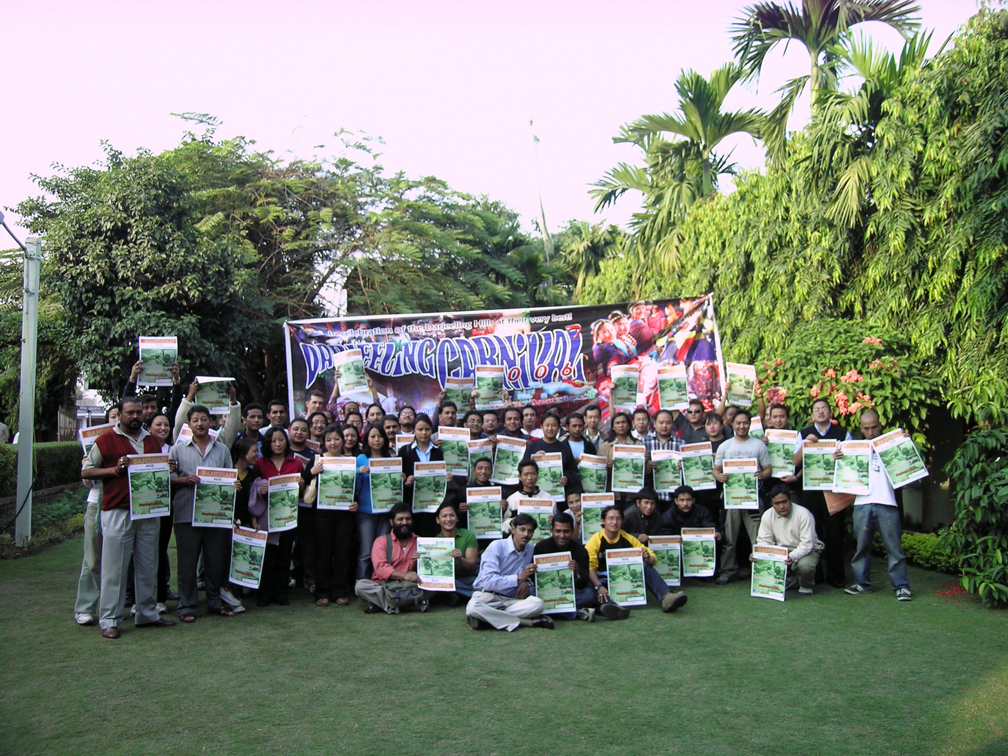 A group of people who represents "Darjeeling Initiative" responsible for the promotion of Darjeeling Carnival in Darjeeling, India